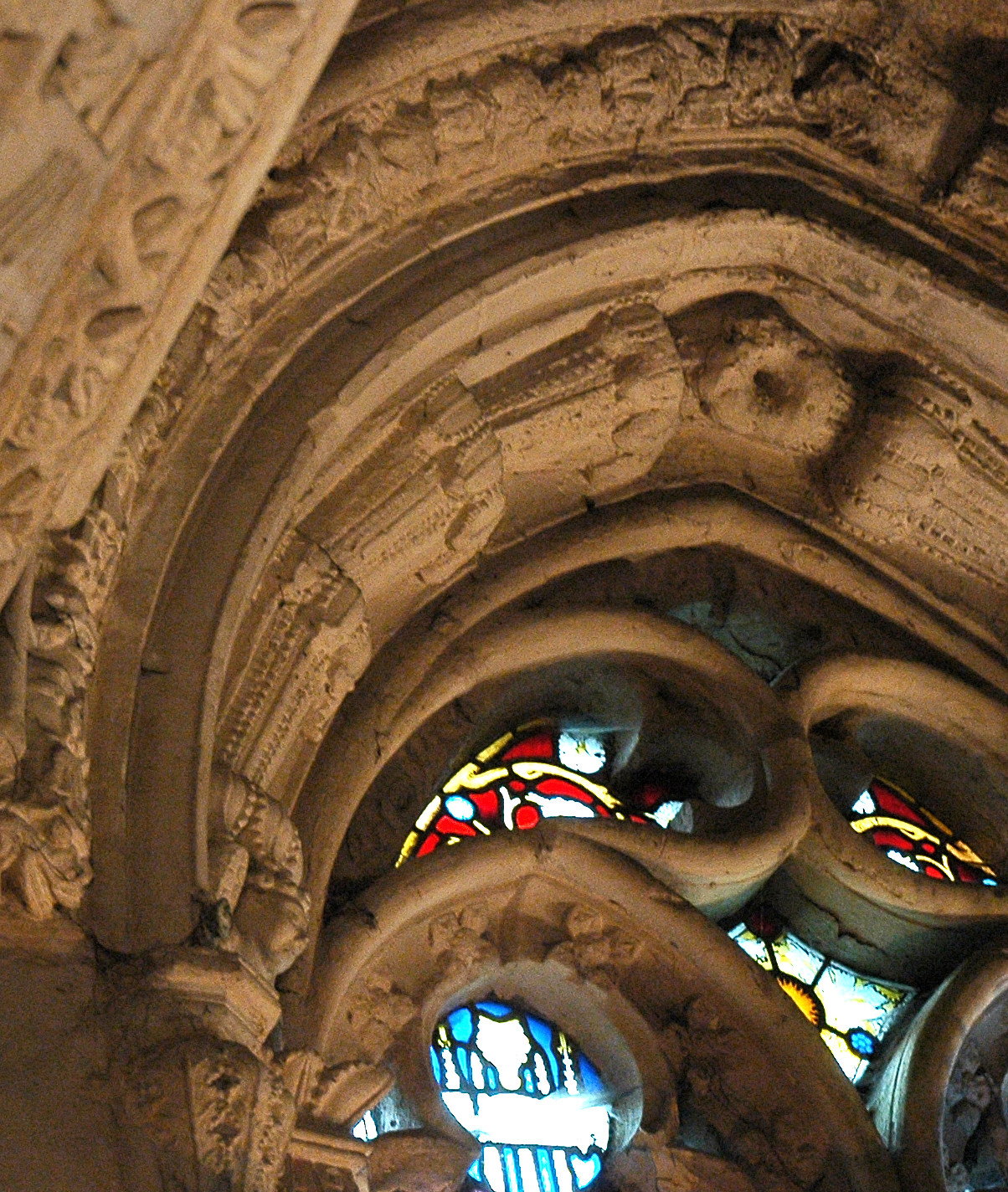 Carvings of corn, in the Rosslyn chapel, Scotland